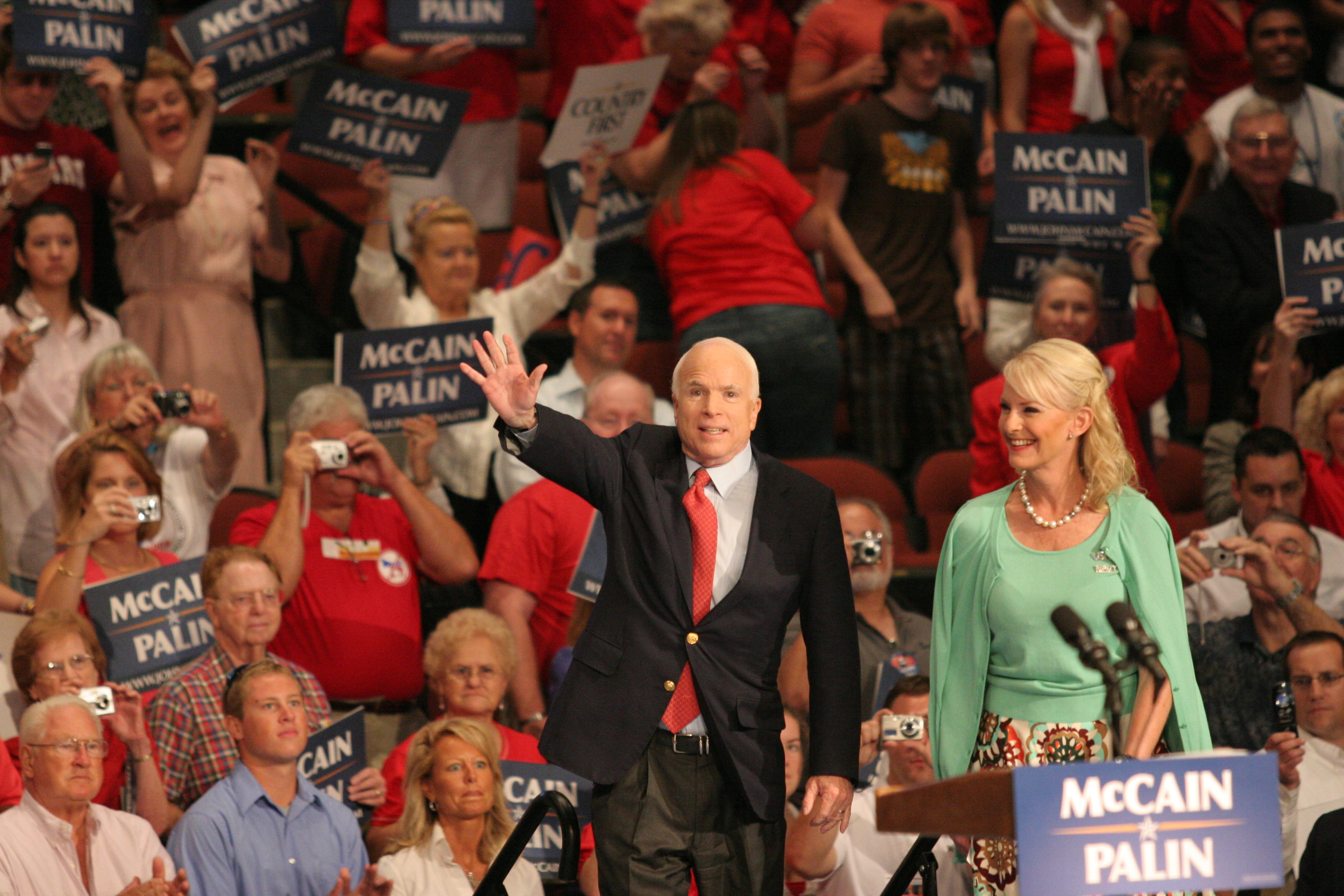 John and Cindy McCain campaigning.